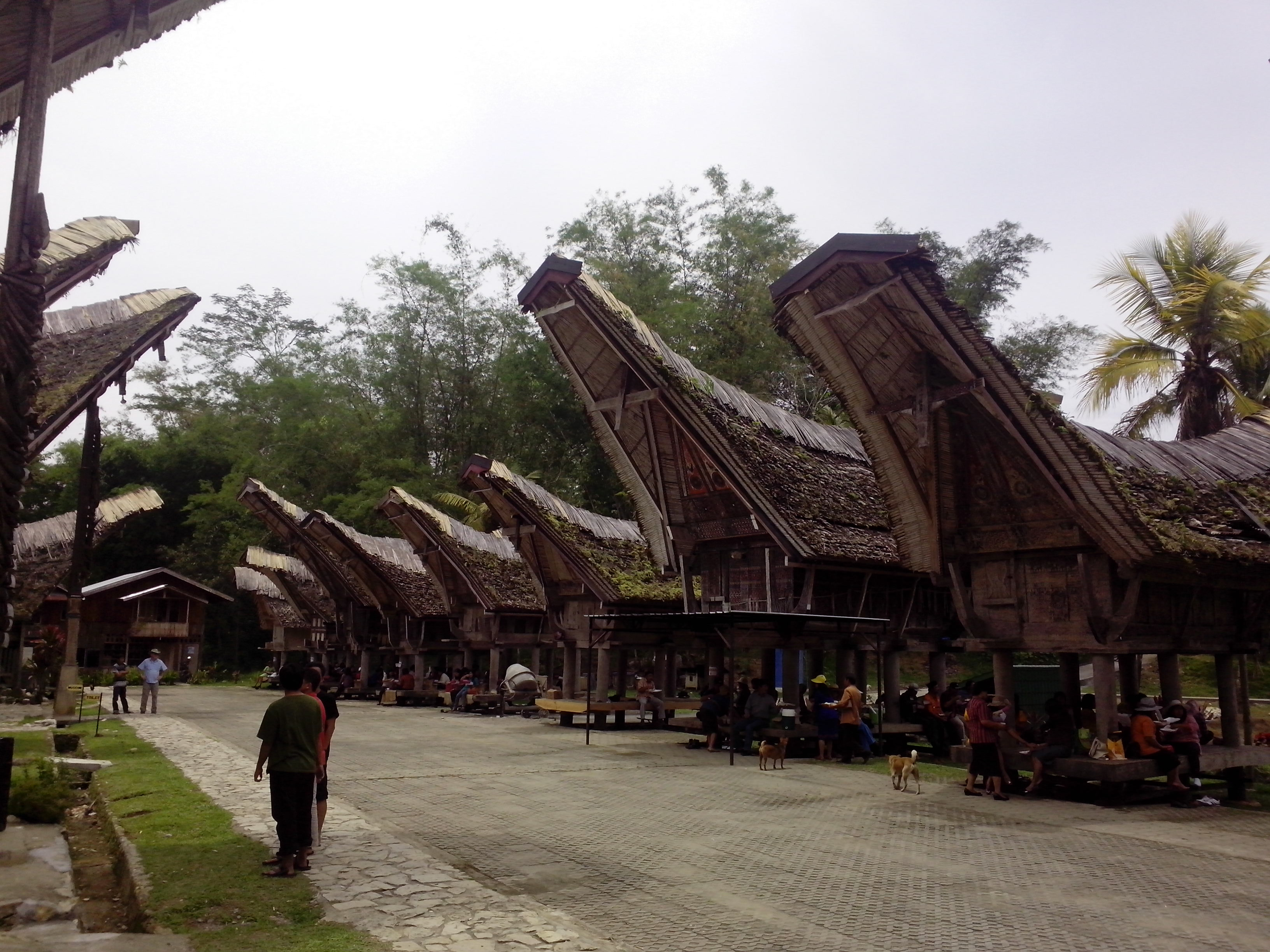 Visitors crowd Ke'te' Kesu site, with Tongkonans and ricebarns in it, as one of tourist attractions in Toraja.